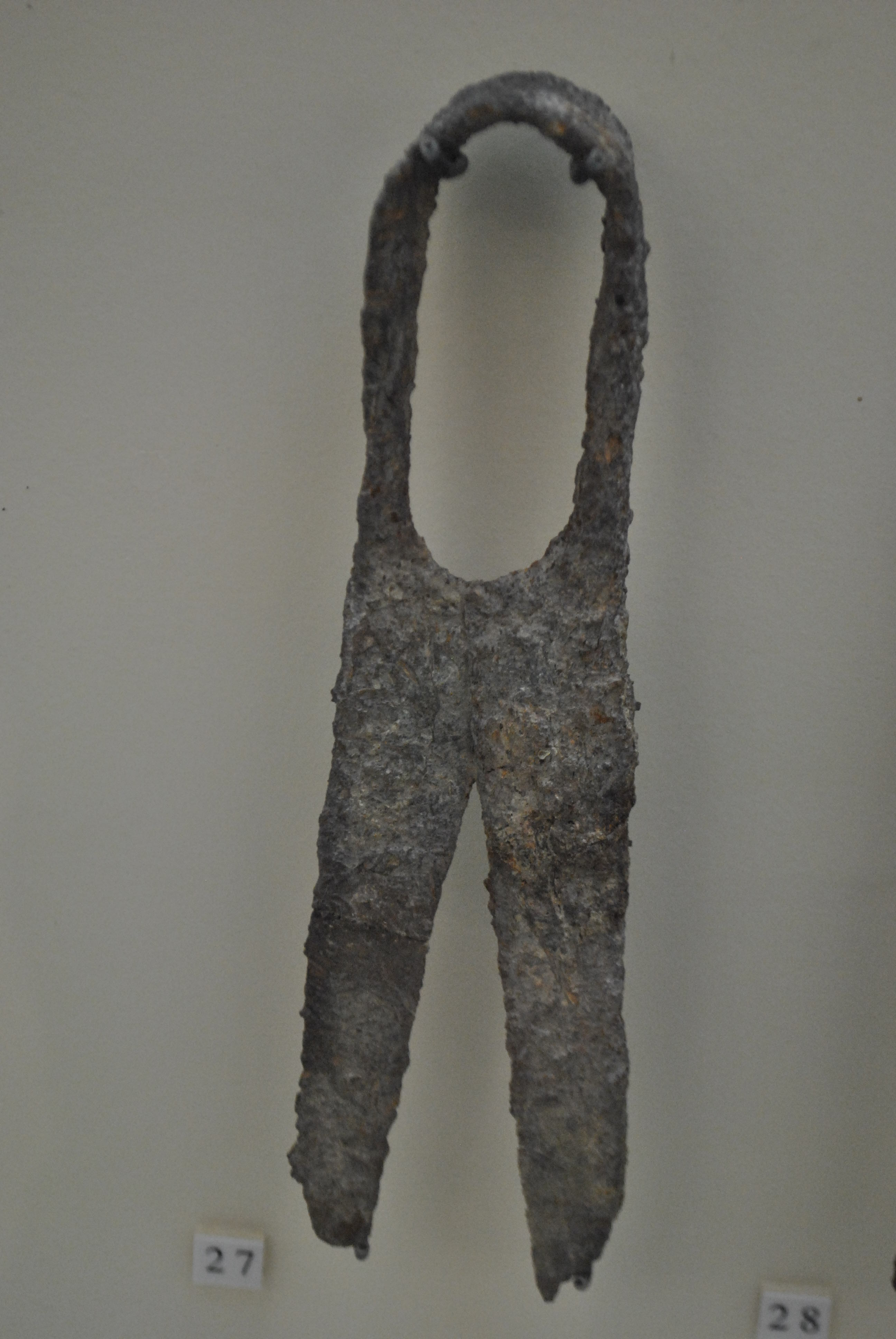 A scissor in Gordion Museum